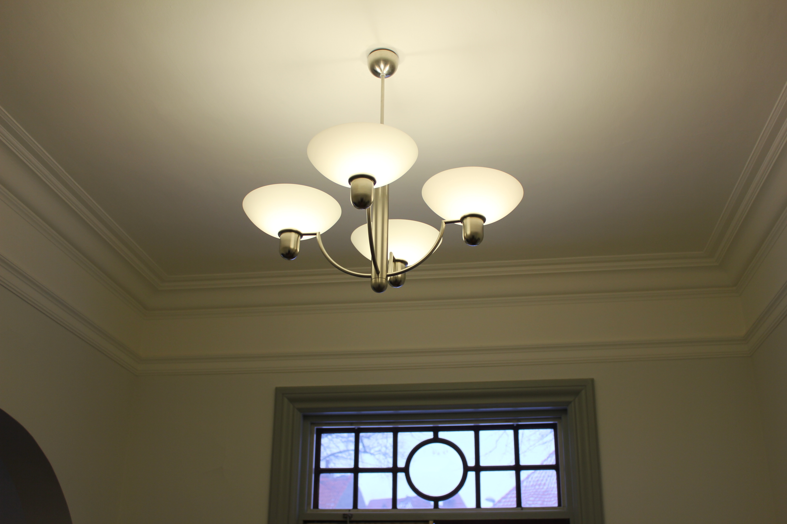 Selene Krone